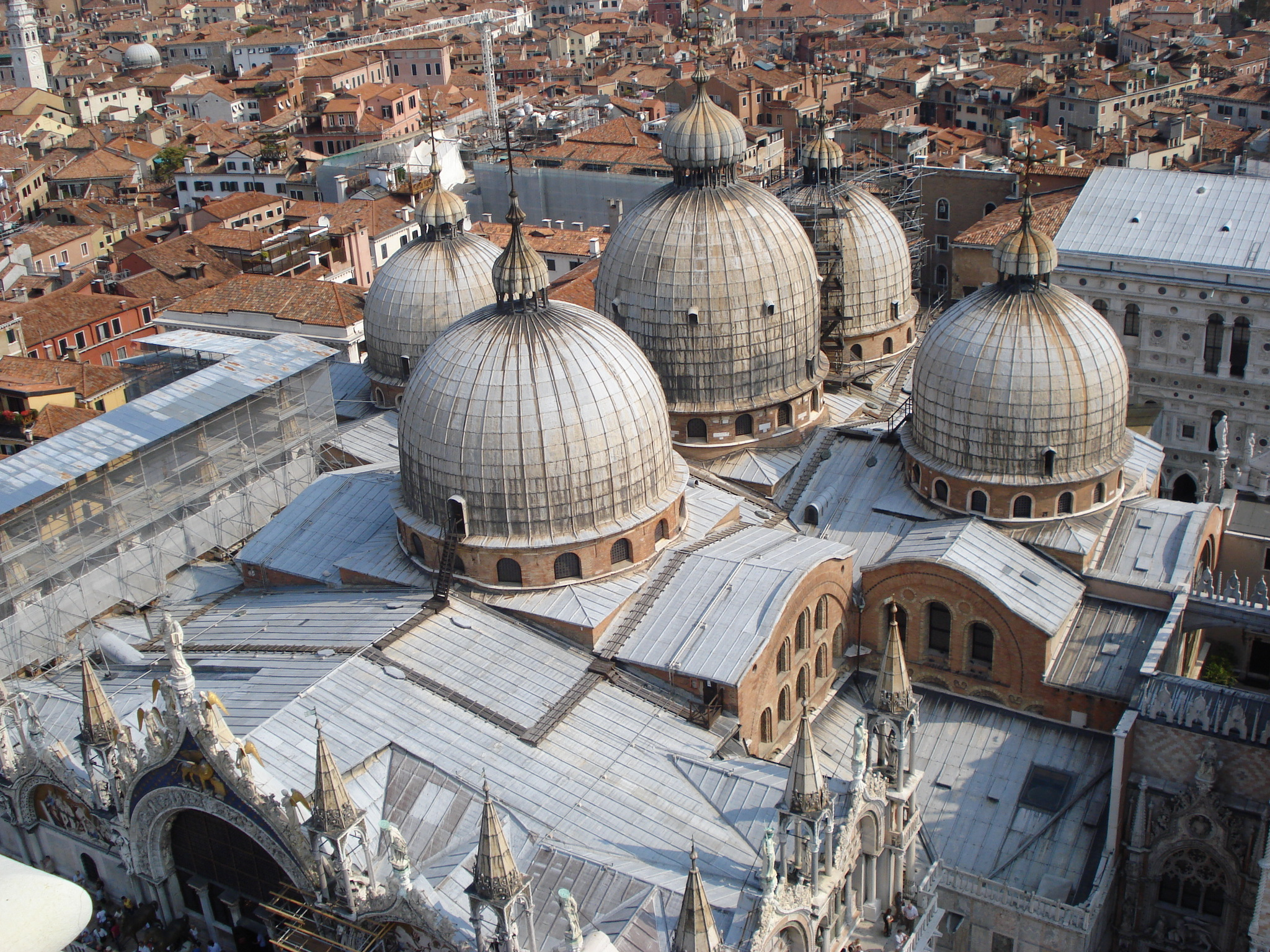 Photo from a bell tower.